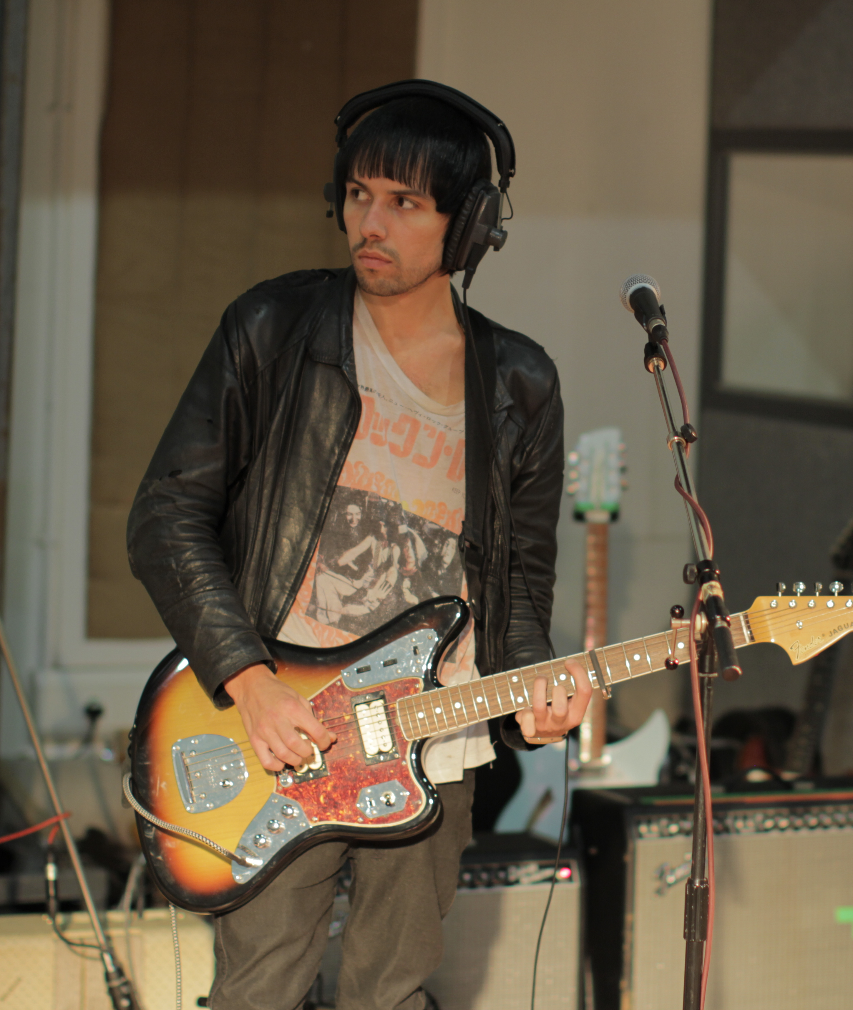 Ryan Jarman at Abbey Road Studios, London, October 2011